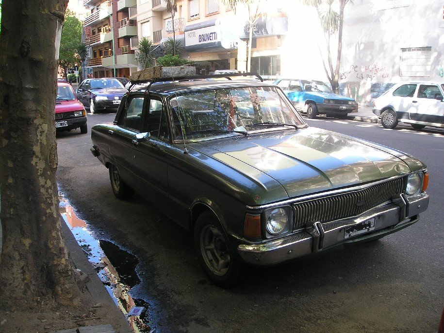 Green Falcon. Two headlights meant low-priced range.